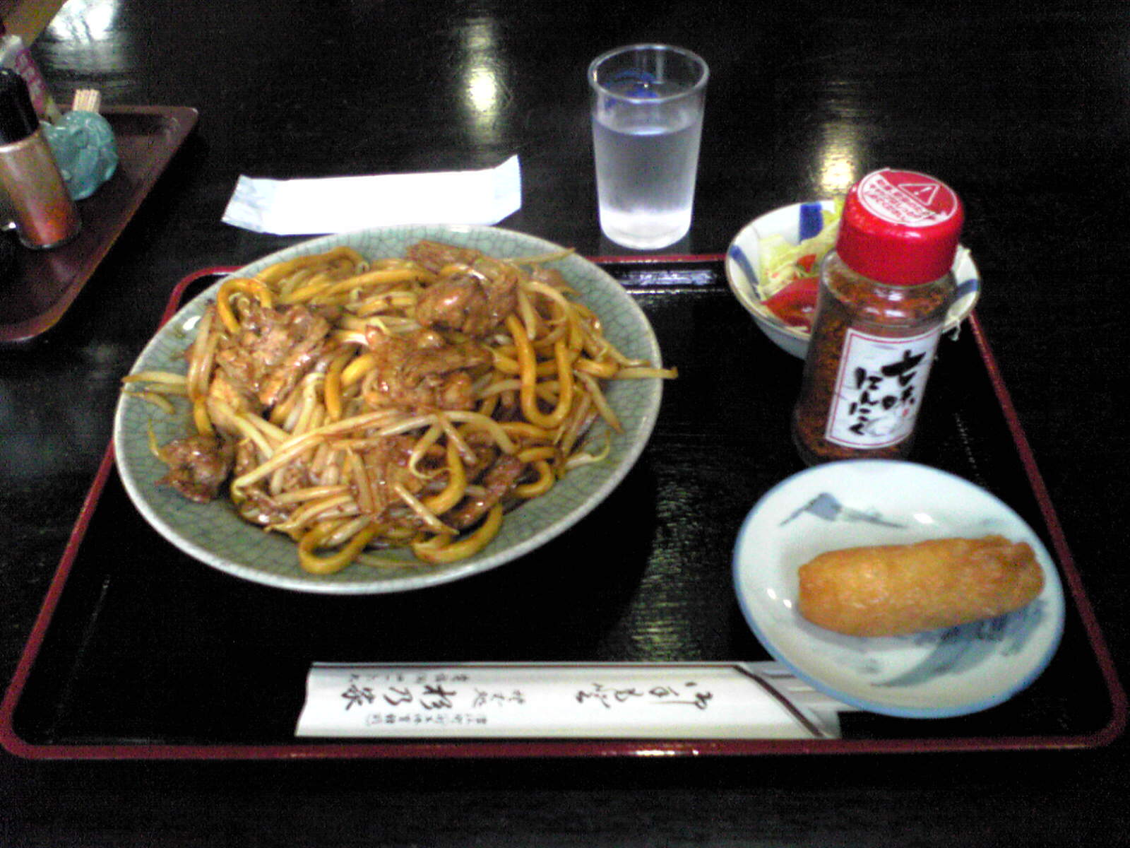 Namie yakisoba